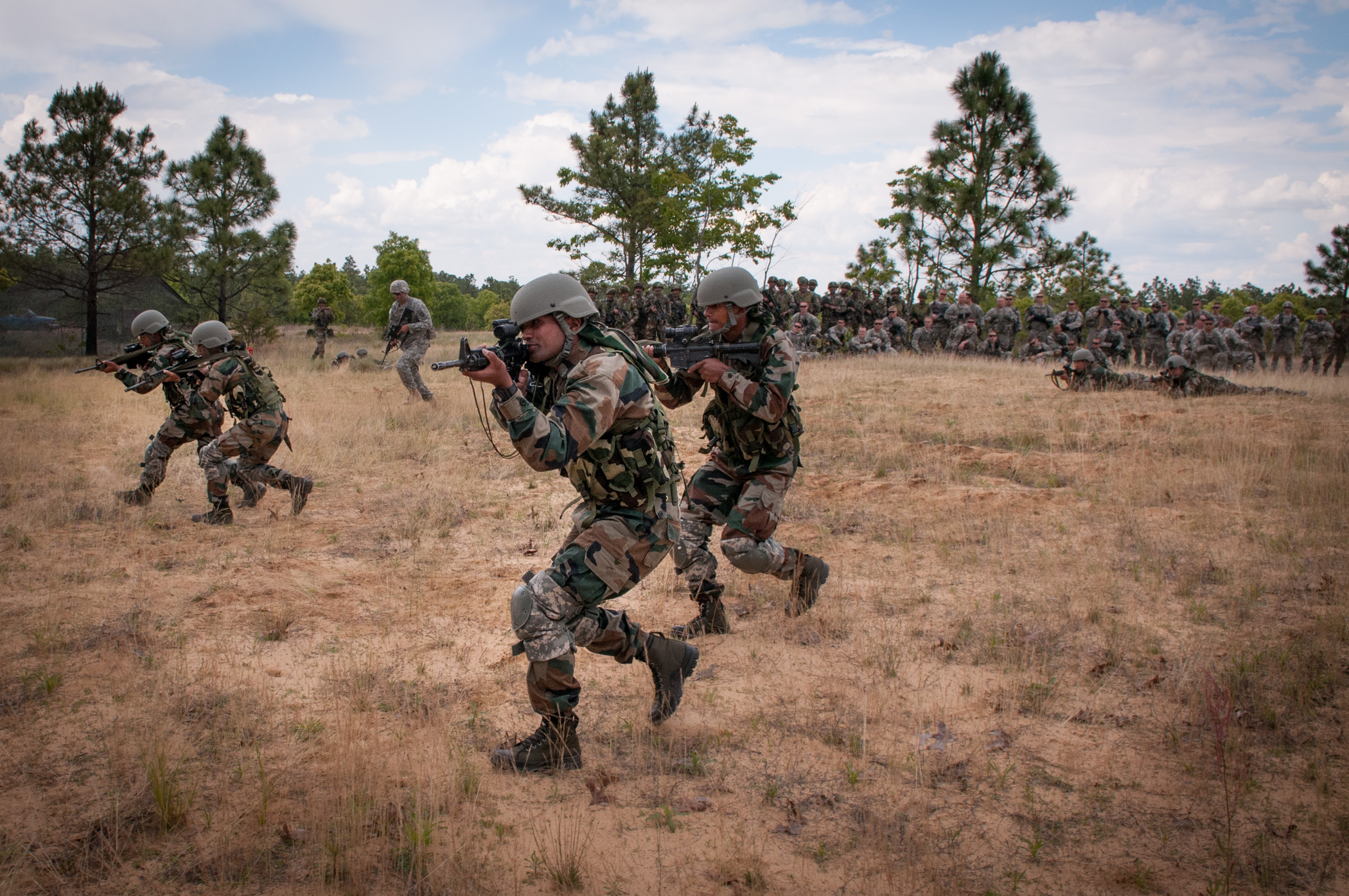 Indian Army soldiers with the 99th Mountain Brigade's 2nd Battalion, 5th Gurkha Rifles, execute an ambush for paratroopers with the U.S. Army's 1st Brigade Combat Team, 82nd Airborne Division, May 7, 2013, at Fort Bragg, N.C. The soldiers are participating in Yudh Abhyas, an annual bilateral training event between the armies of the United States and India sponsored by U.S. Army Pacific. (U.S. Army photo by Sgt. Michael J. MacLeod)